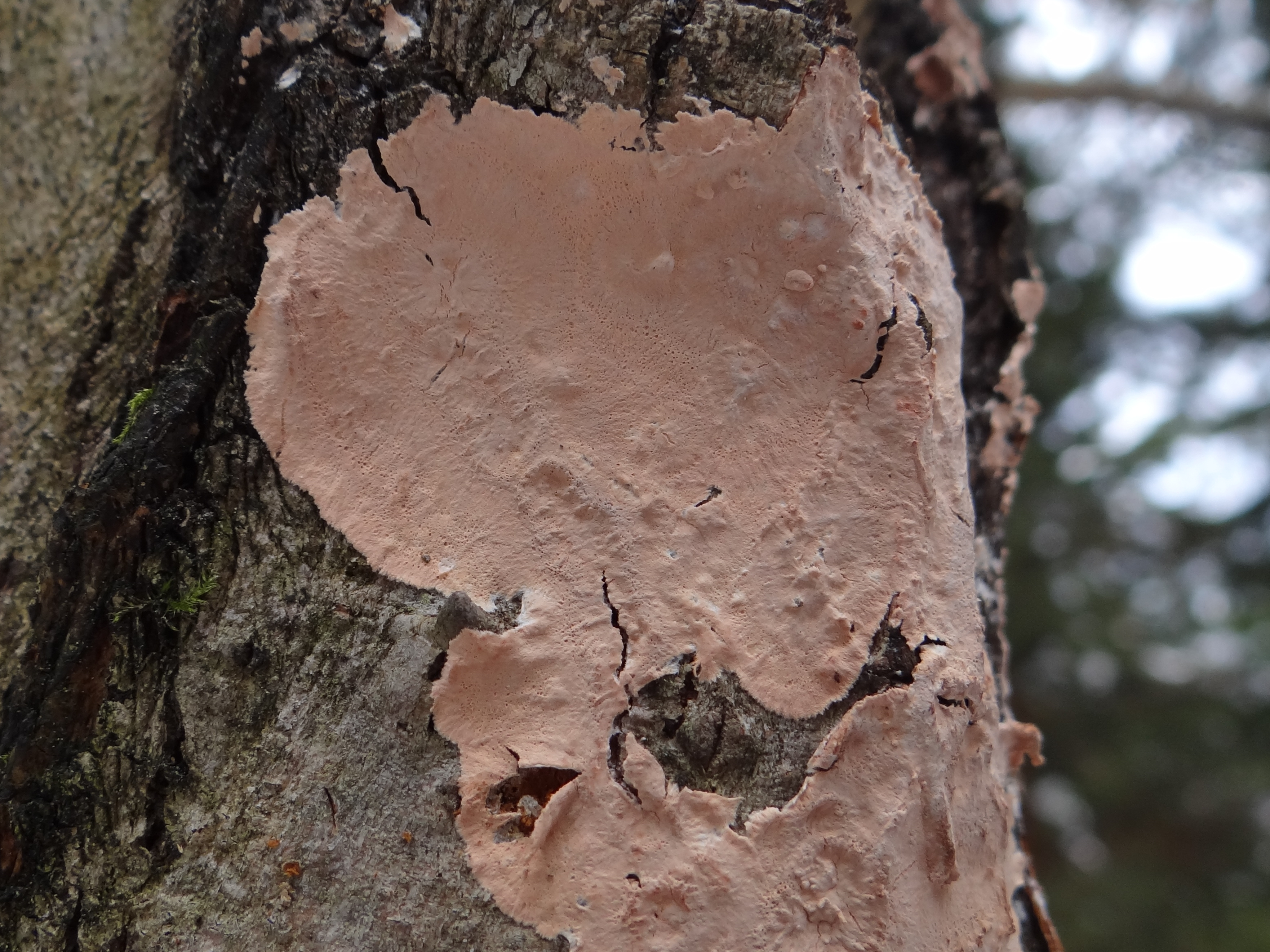 Peniophora violaceolivida on Salix caprea (location: Poland, Beskid Wyspowy, Ćwilin)